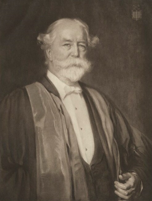 Sir Adolphus William Ward, Master of Peterhouse, Cambridge